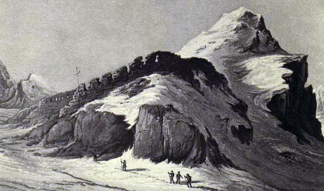 The Teodulpass between the Valle d'Aosta (Italy) and Wallis (Switzerland) around 1800